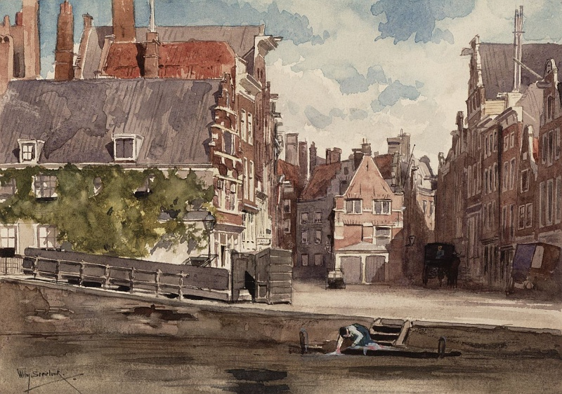 Amsterdam_Nieuwezijdse_Kolk_met_Korenmetershuisje